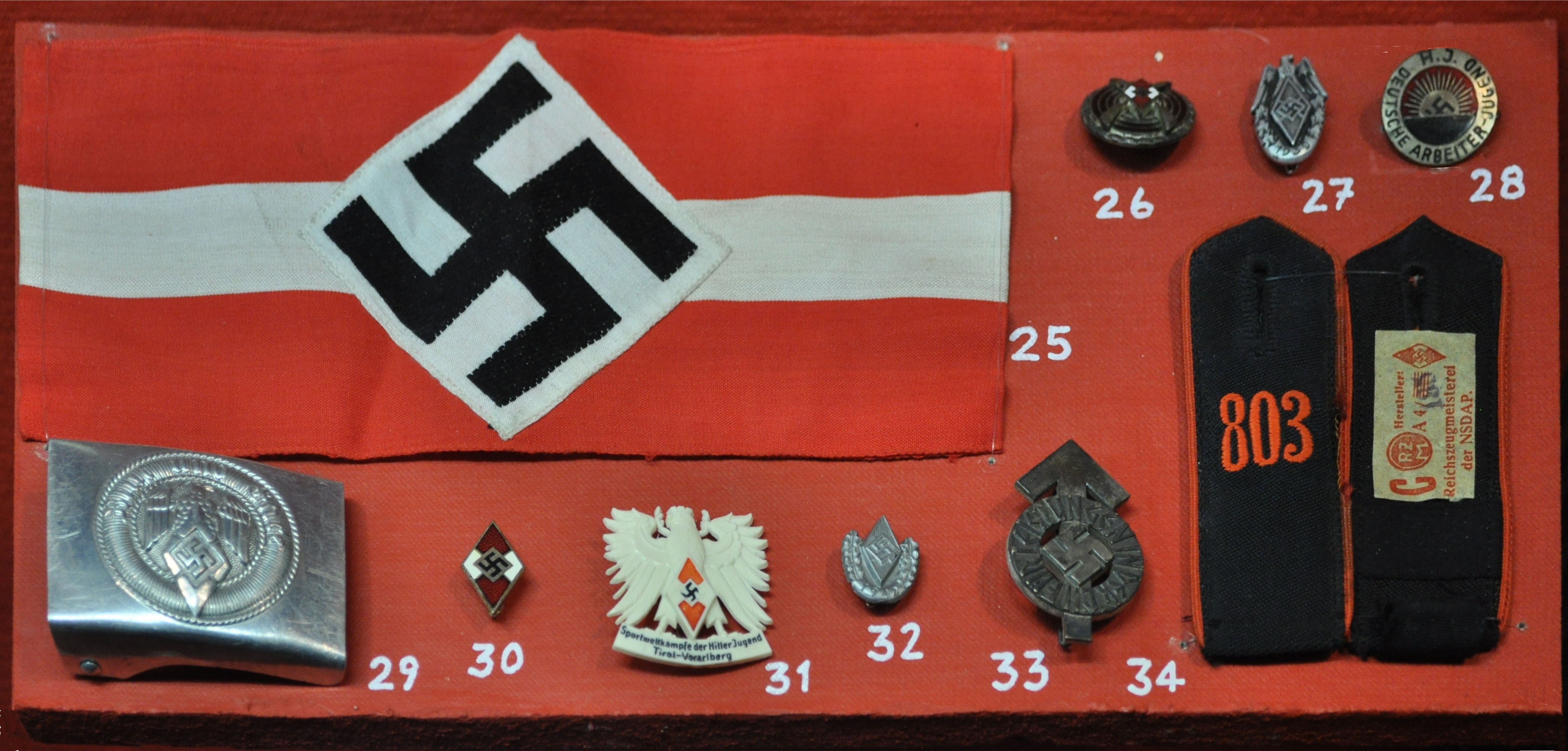 Nazi political and civil badges and insignia, Fort Lewis Military Museum, Fort Lewis, Washington, USA. 25. Hitler Youth arm band 26. Hitler Youth shooting award 27. Hitler Youth award 28. Hitler Youth workers pin 29. Hitler Youth belt plate 30. Hitler Youth membership pin 31. Hitler Youth event pin 32. Hitler Youth award 33. Hitler Youth proficiency badge 34. Hitler Youth shoulder straps with unit number Identifications based on File:FLMM - Nazi political and civil organizations insignia list.jpg.